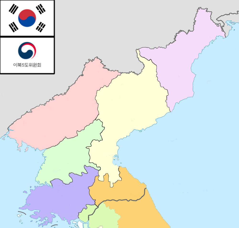 Map of Five Northern Provinces of the Republic of Korea (ROK does not officially recognise the DPRK and considers the whole Korean Peninsula to be ROK's land)